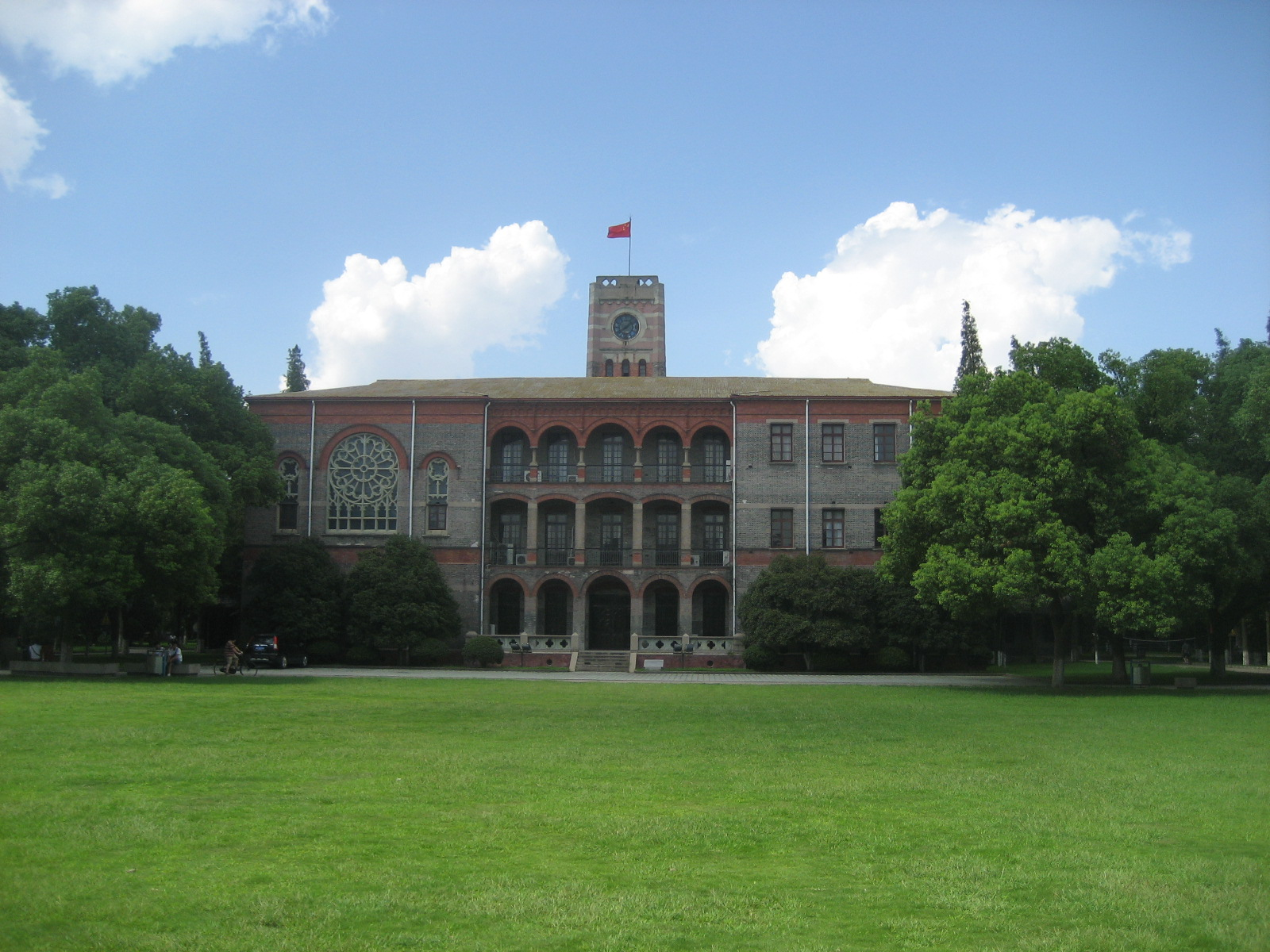 Clock building on the campus of Soochow University, Suzhou, Jiangsu, PRC.